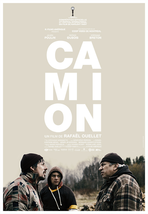 Poster of the movie Camion (Q5026792)